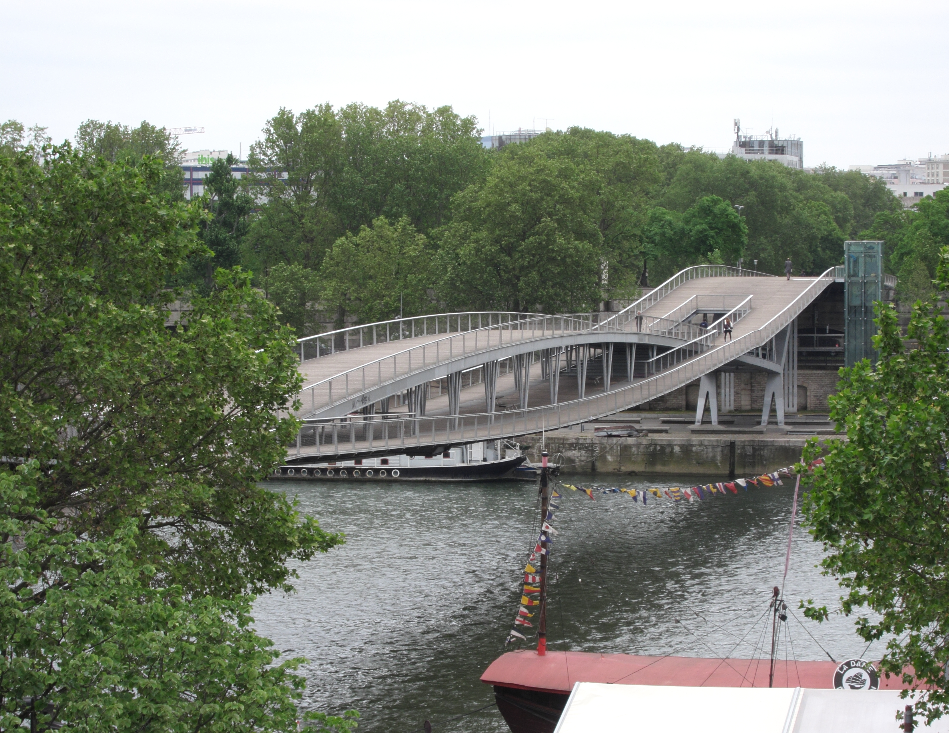 Passerelle Simone-de-Beauvoir across the Seine, from BnF to Parc de Bercy